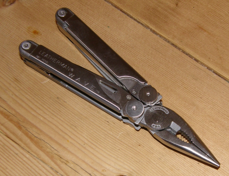 My (old-model) Leatherman Wave. If only it had a corkscrew as well as all the bits it does have...